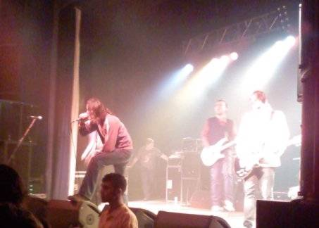 Ned's Atomic Dustbin live in Wolverhampton, taken by myself last night after elbowing lots of people out of the way to get to the front.........